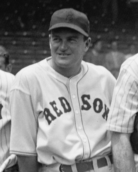 Joe Cronin of the Boston Red Sox, cropped from a posed picture of 1937 Major League Baseball All-Stars in Washington, DC.